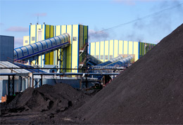 Sputnik